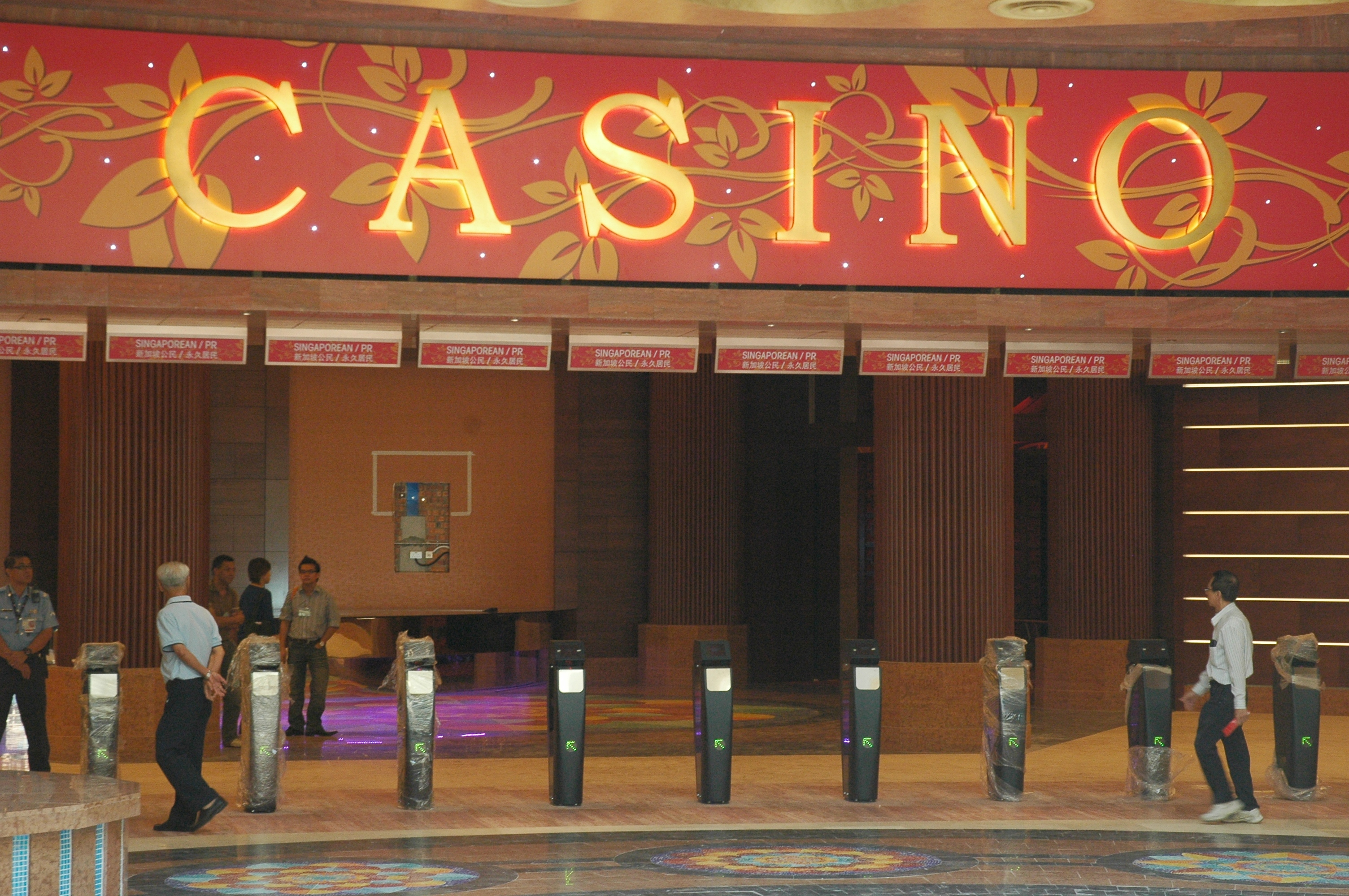 Access control gates for the casino at Resorts World. Note segregation between foreigners and Singaporeans/Permanent Residents (PR).